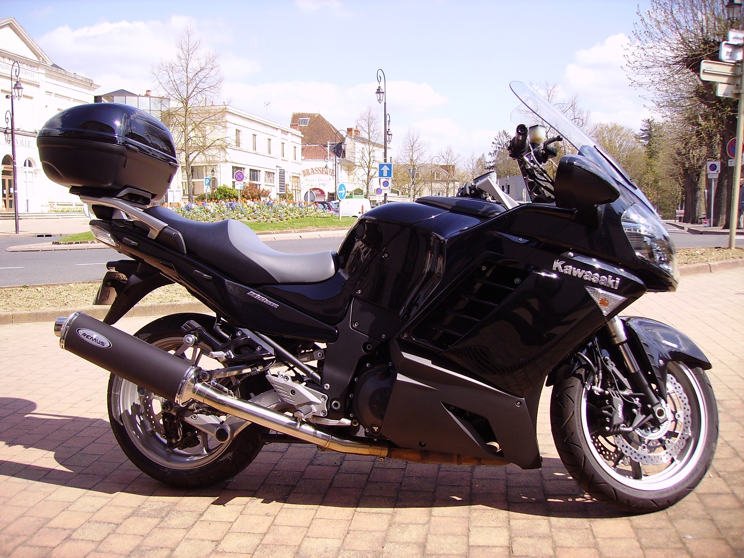 Kawasaki 1400GTR.